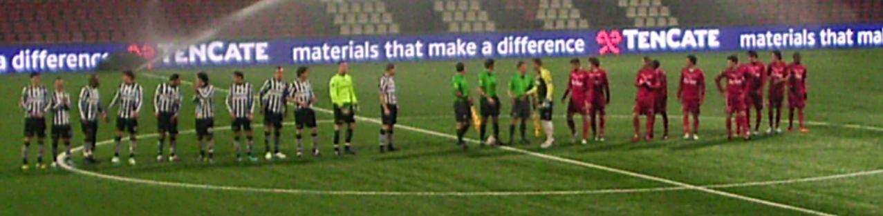 Jong Heracles Almelo vs. Jong FC Twente